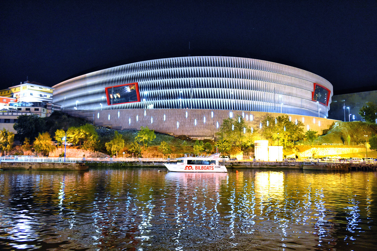 San Mamés Stadium in Bilbao, Basque Country, Spain